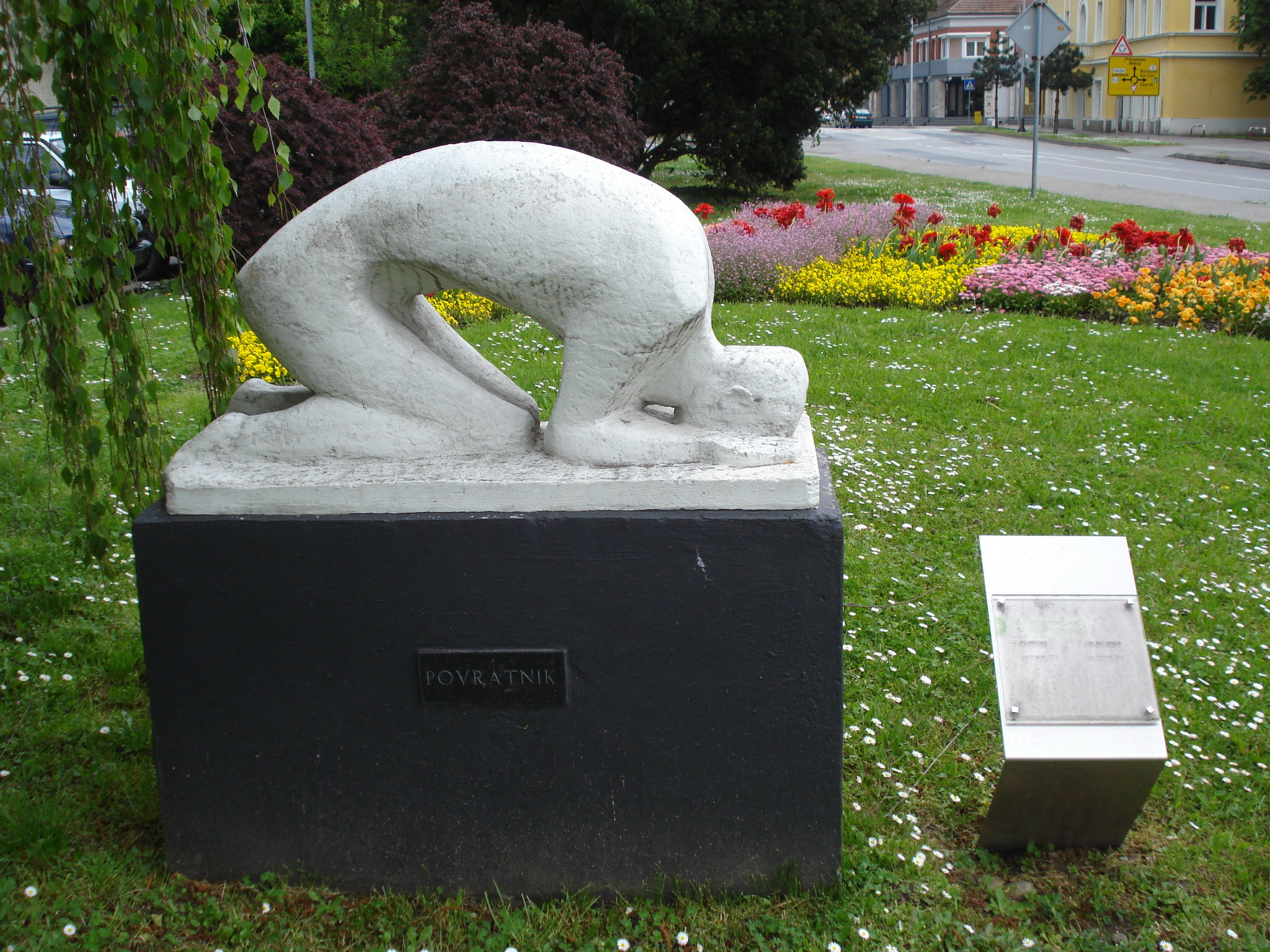 "The returner" (1973), sculpture of Lujo Bezeredy, Croatian sculptor and painter, in Čakovec, Croatia - west viewHrvatski: "Povratnik" (1973), skulptura Luje Bezeredyja, hrvatskog kipara i slikara, u Čakovcu, Hrvatska - zapadna strana